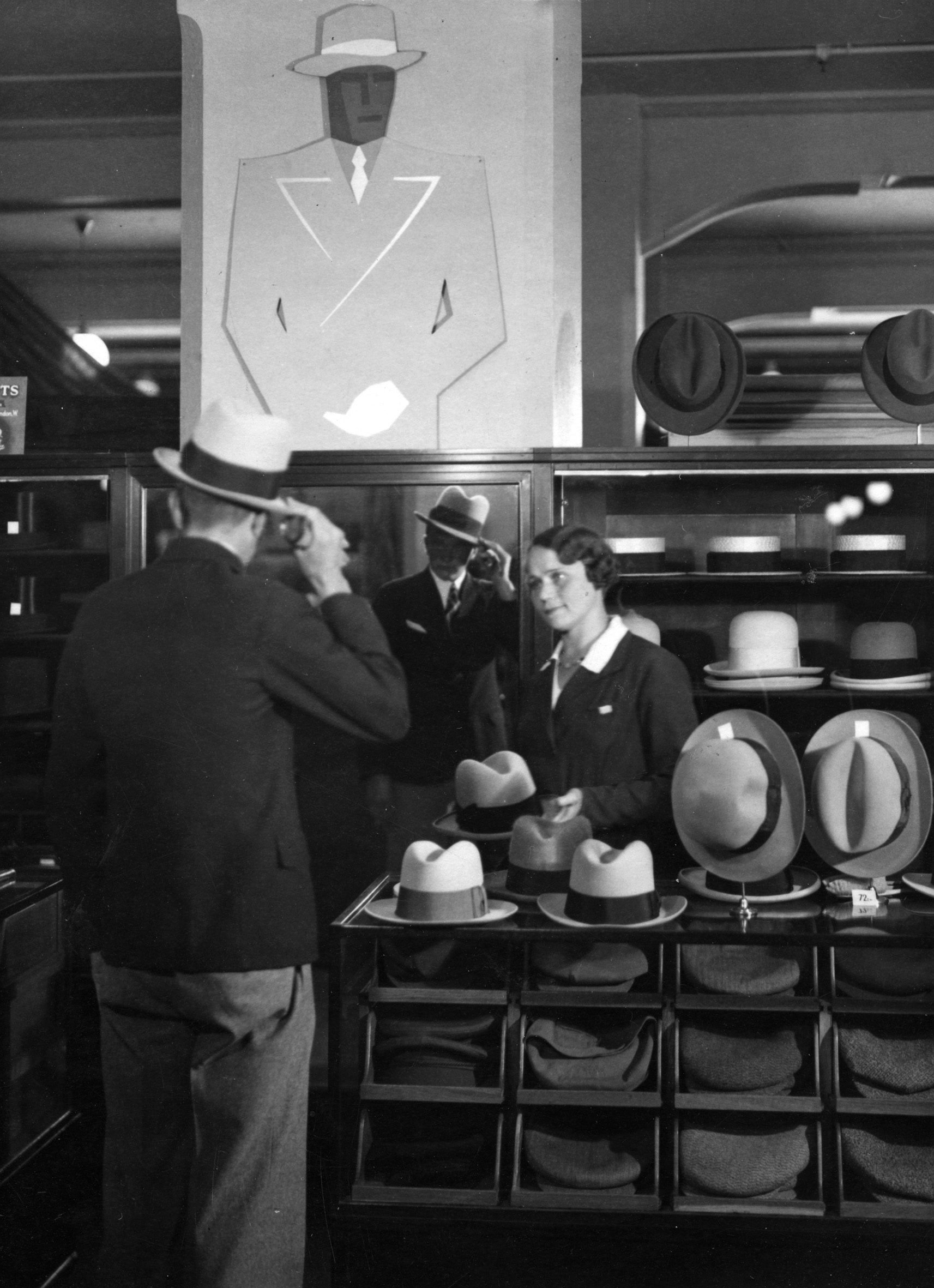 Customer service at the hat department in 1930.